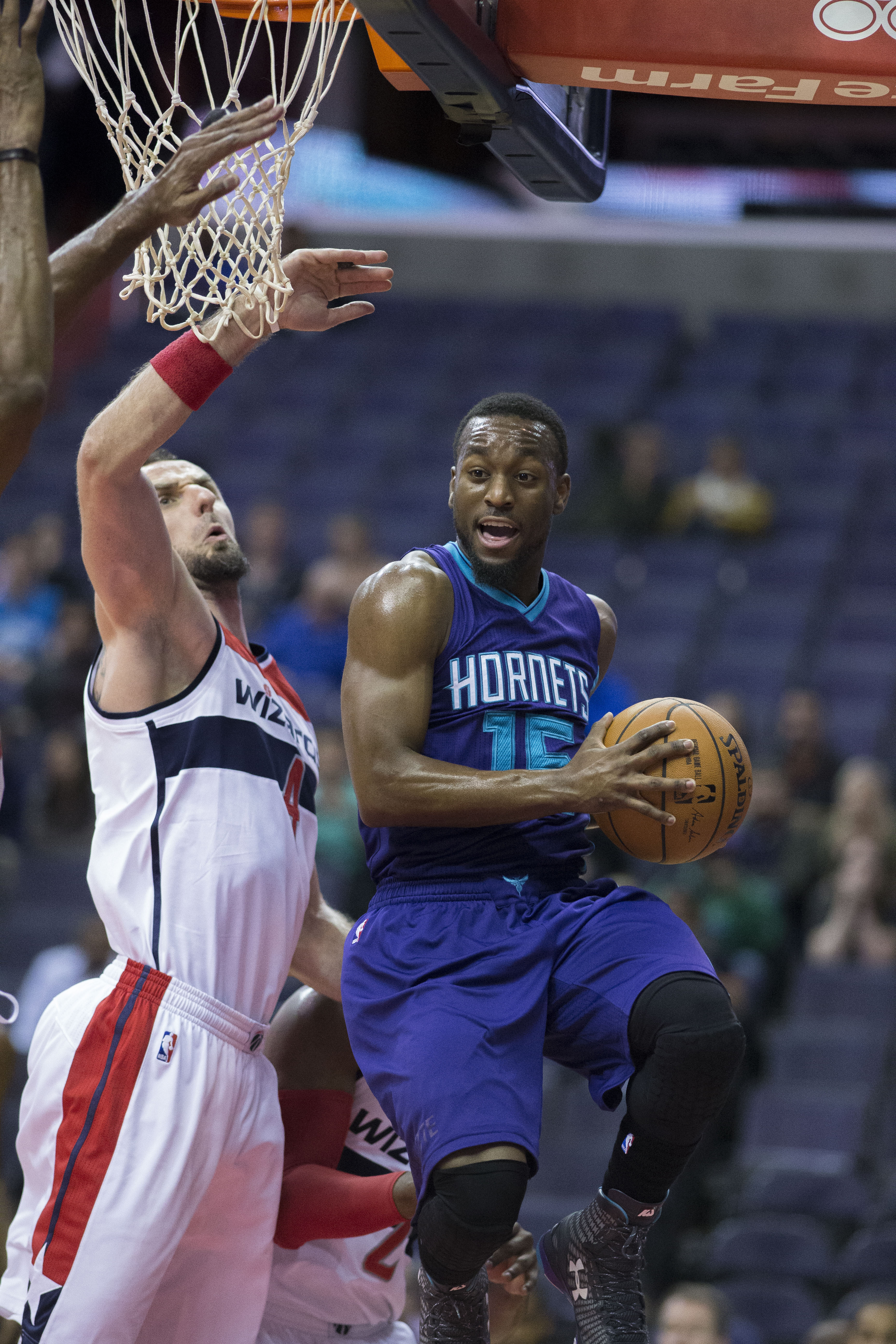 Kemba Walker of the Charlotte Hornets drives against Marcin Gortat of the Washington Wizards during a preseason game at the Verizon Center on October 17, 2014 in Washington, D.C.